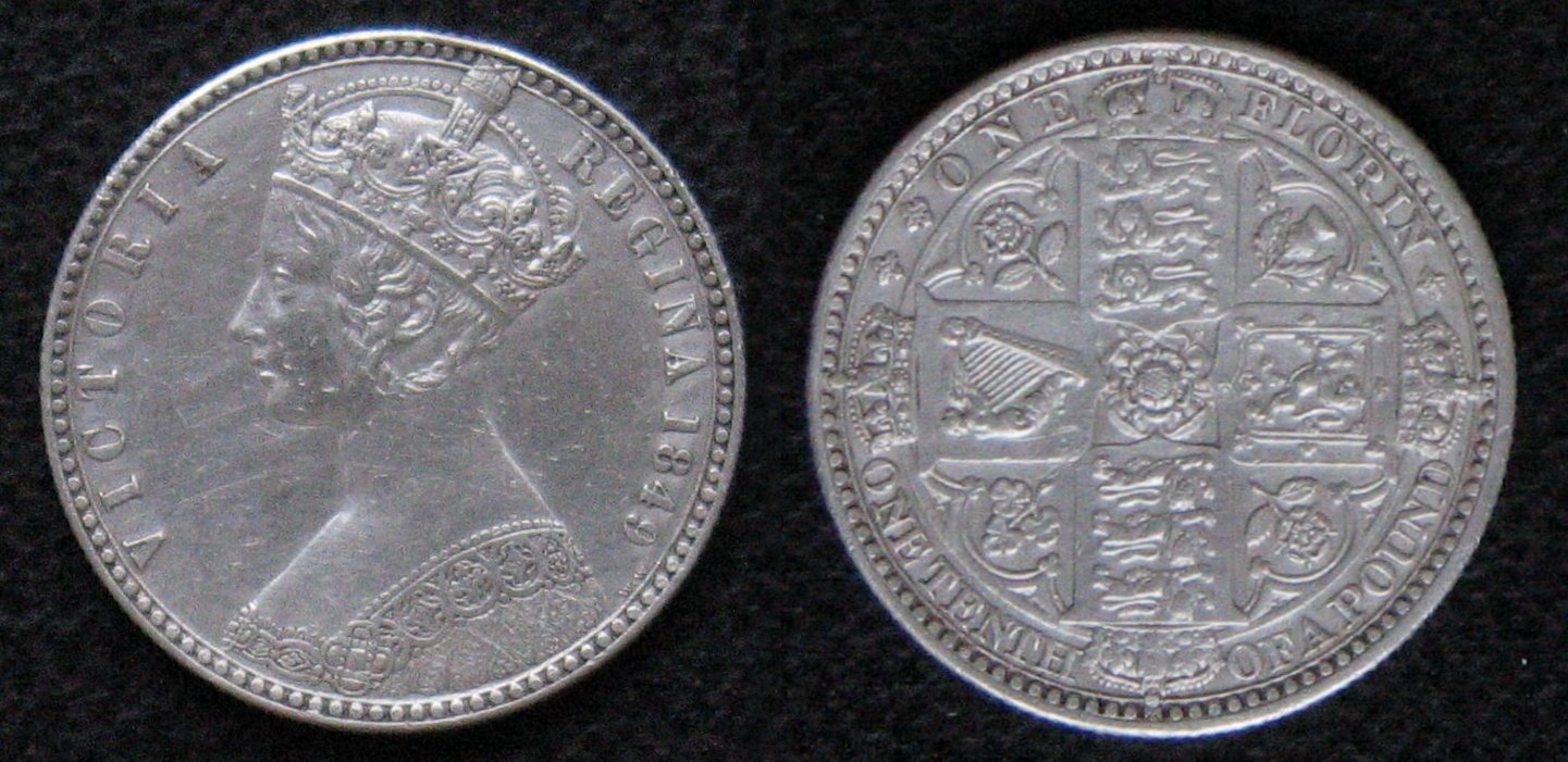 The 1849 Florin known as the Godless Florin; the obverse was designed by the Chief Engraver of the Royal Mint, William Wyon, while the reverse of both was designed by William Dyce.